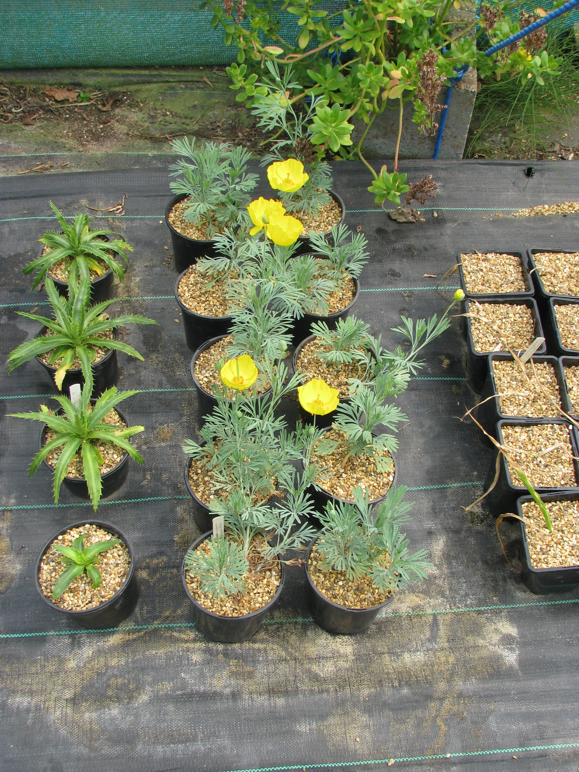 A batch of seedlings for sale